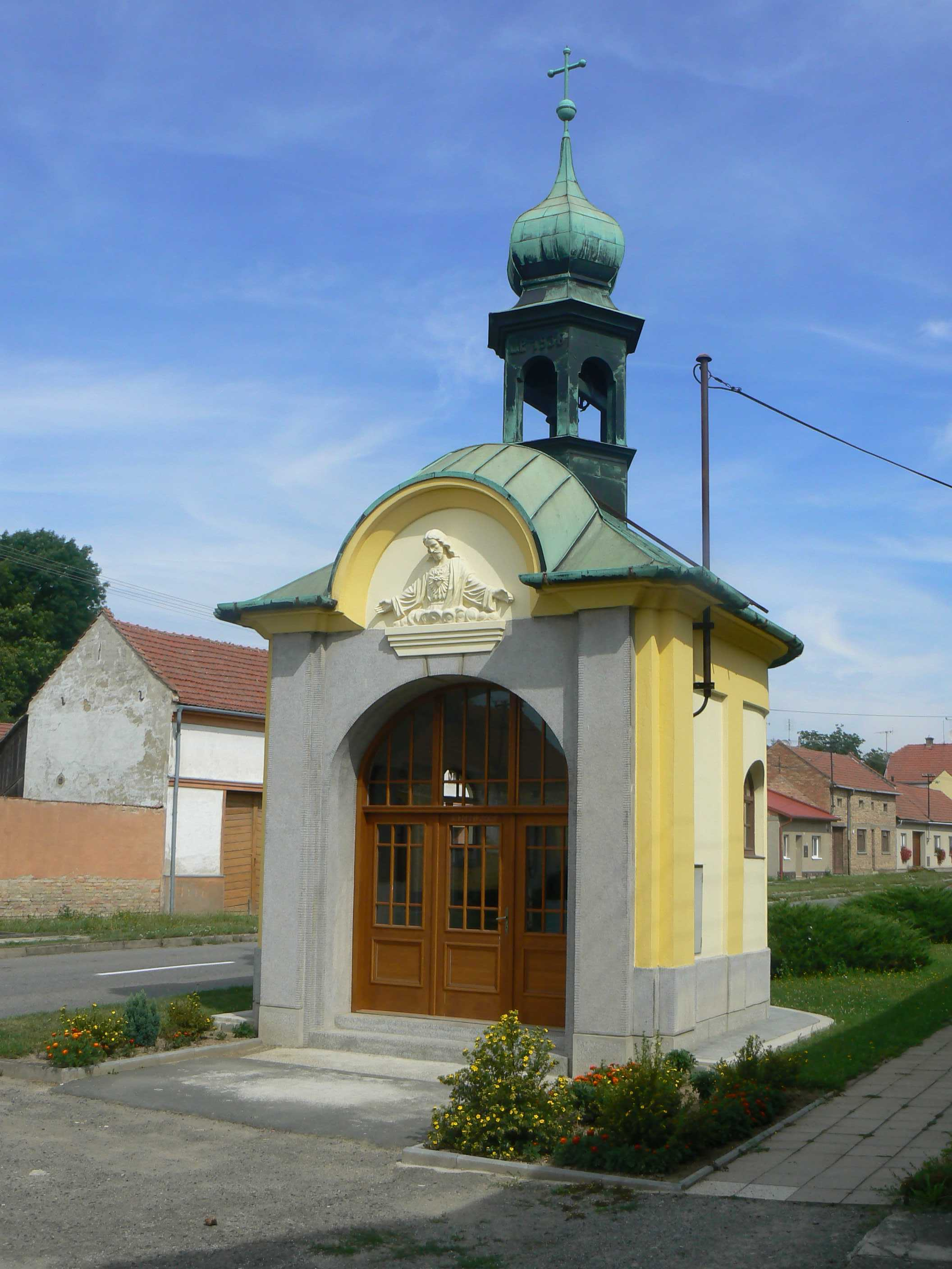 Saint John of Nepomuk chapel in Nesovice.